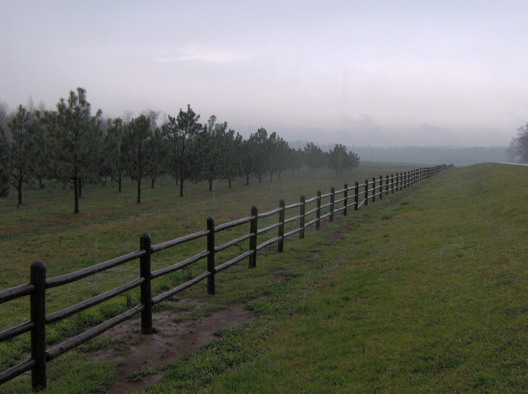 The site of the ancient Cherokee village of Great Hiwassee (often called Hiwassee Old Town) near Delano, Tennessee, in the southeastern United States. The East Tennessee Nursery, which now occupies the side, is part of the Tennessee Division of Forestry.